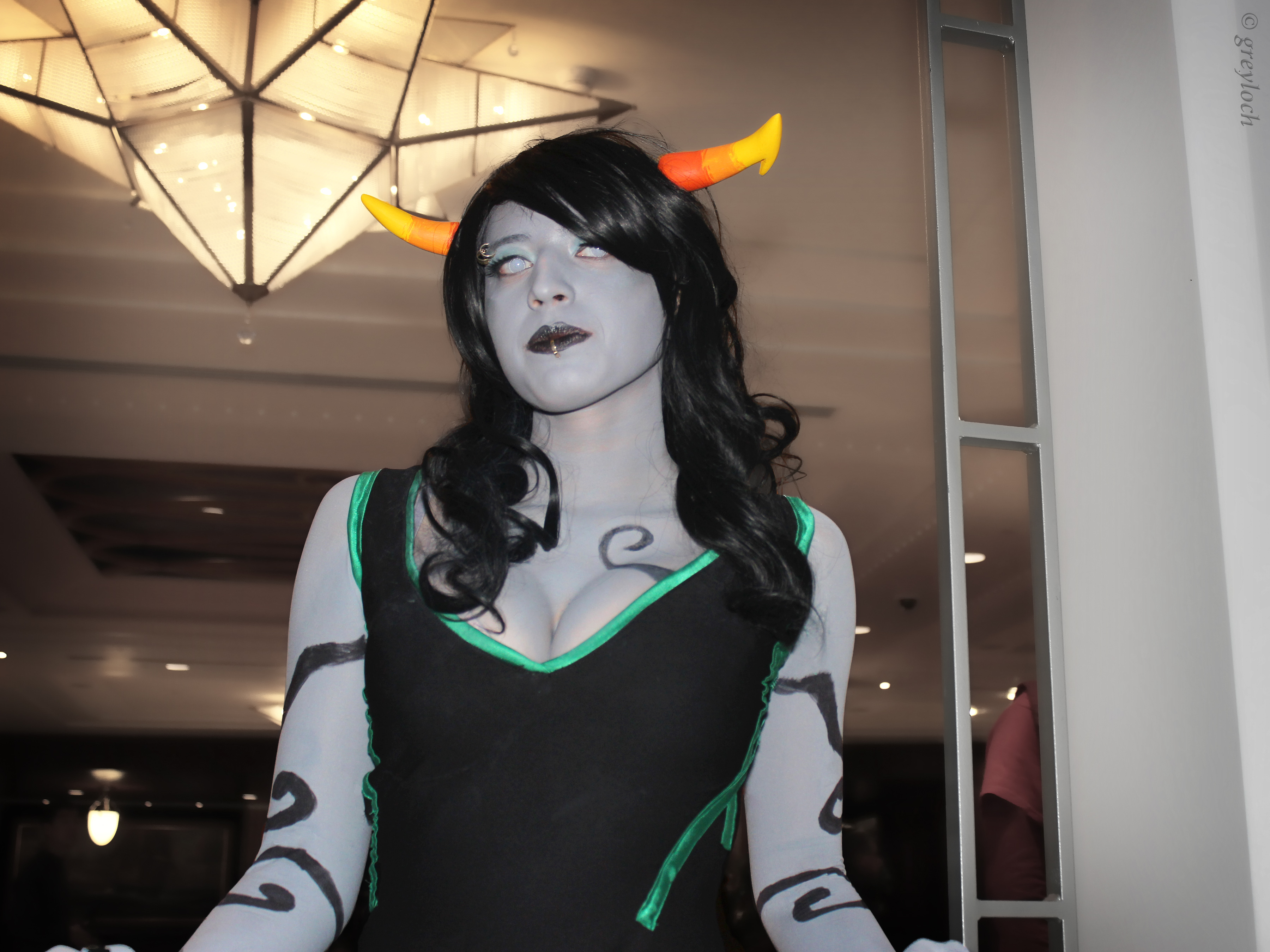 One of the Troll "ancestors" from MS Paint Adventures: Homestuck. Lovely-looking cosplayer.